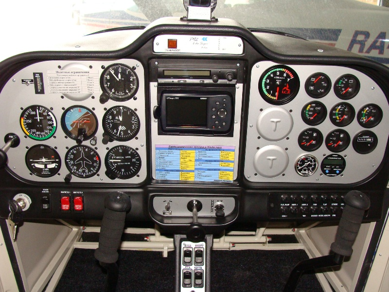 Tecnam P92 Echo классическая компоновка